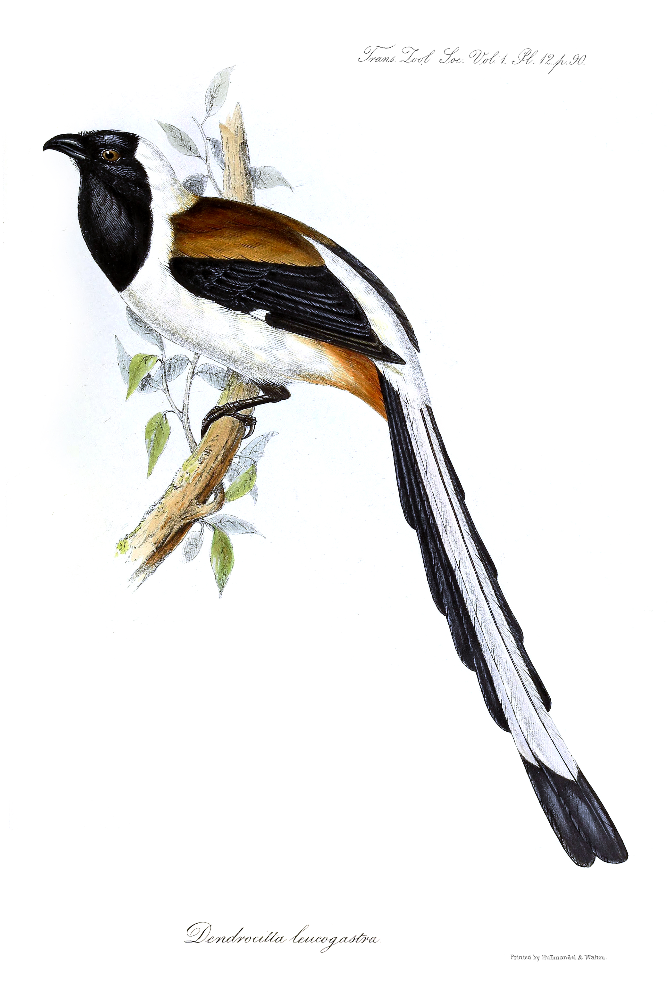 Painting of Dendrocitta leucogastra